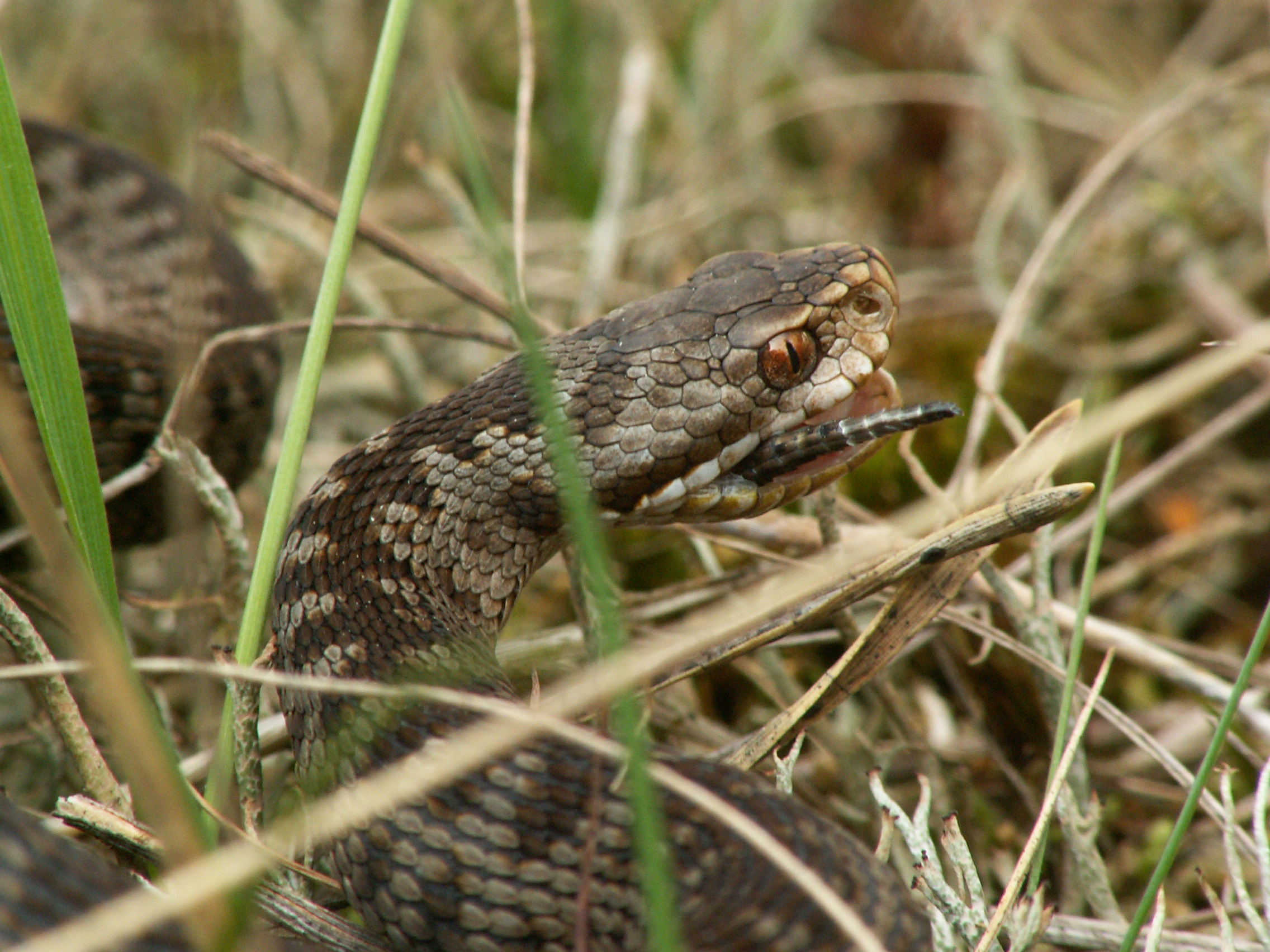 Vipera berus eating Zootoca vivipara in Drenthe, the Netherlands